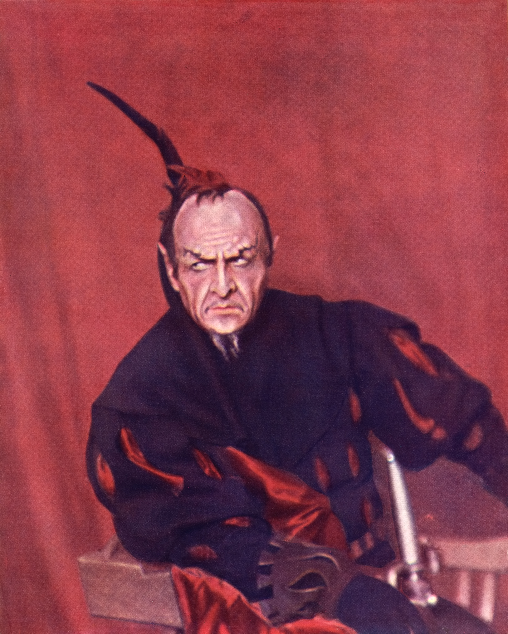 Feodor Chaliapin as Mephisto.